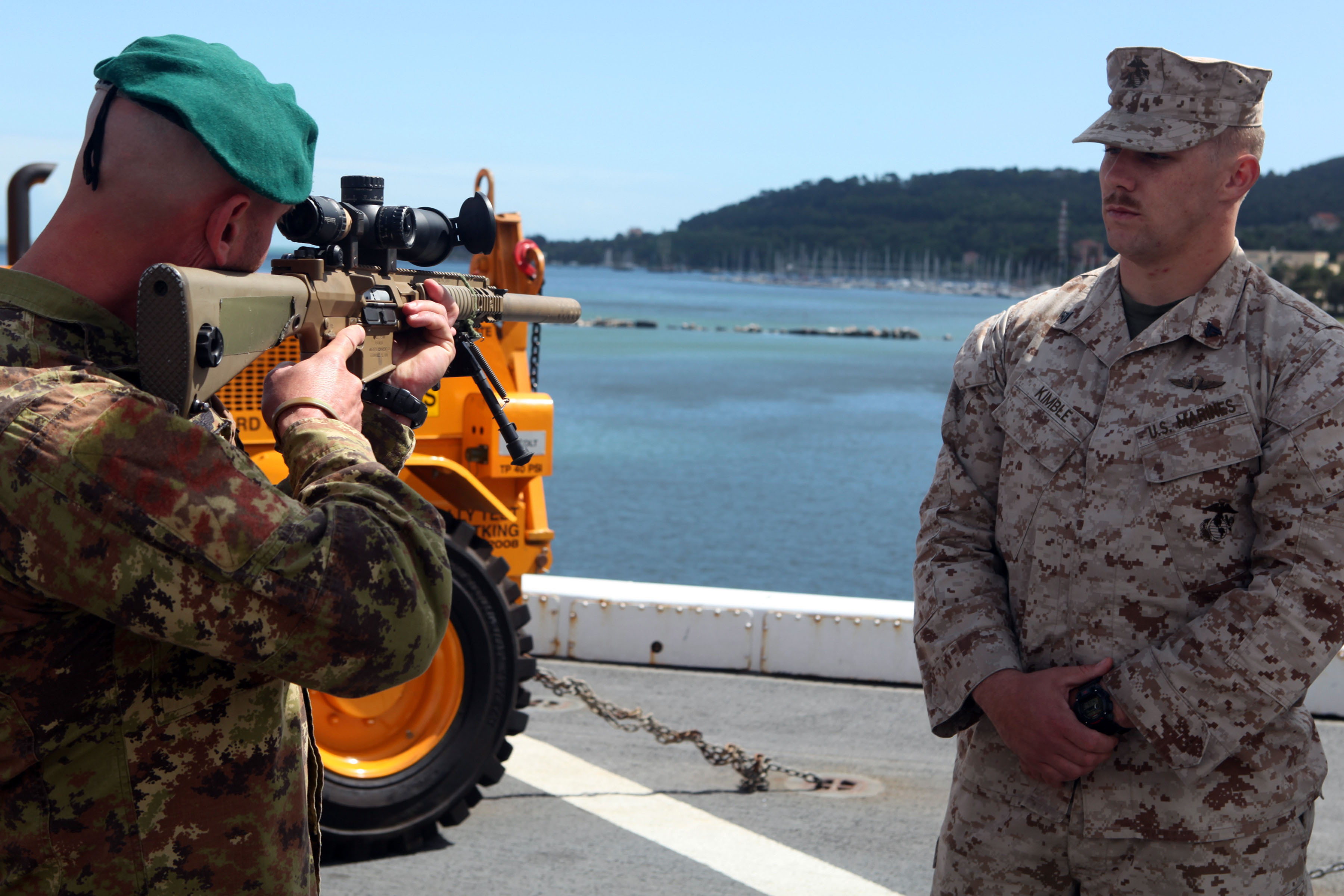 Marines with Battalion Landing Team 1st Battalion, 2nd Marine Regiment, 24th Marine Expeditionary Unit, discuss the capabilities of Marine sniper rifles to members of the Gruppo Operativo Incursori, the Italian equivalent of U.S. Navy SEALs, here, during a port visit in La Spezia, Italy, April 23, 2012. The 24th MEU along with the Navy's Iwo Jima Amphibious Ready Group, is currently deployed as a theater reserve and crisis response force capable of a variety of missions from full-scale combat to humanitarian assistance and disaster relief.